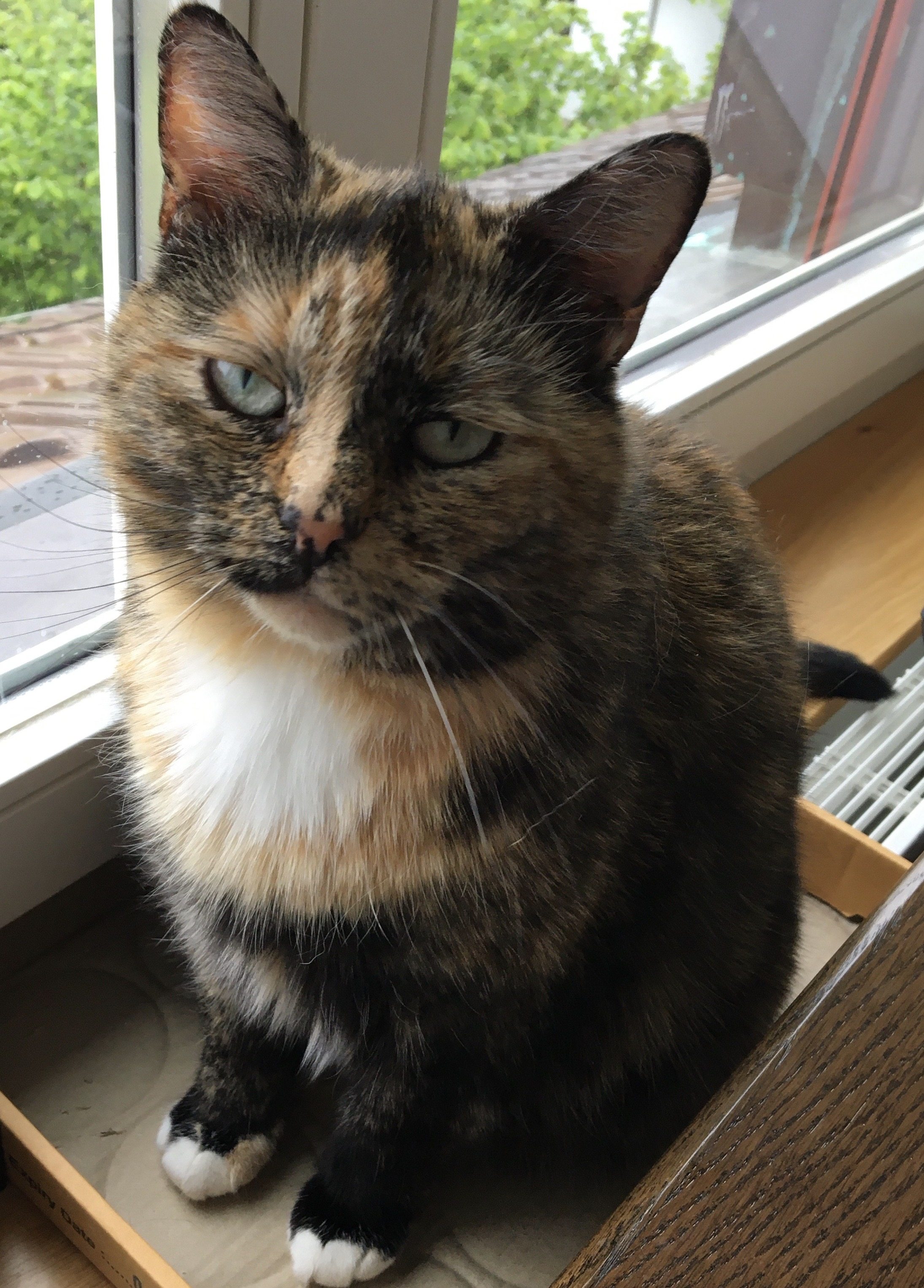 A domestic, short-haired cat, with brindled patterned (also know as tortoise-shell) coat.